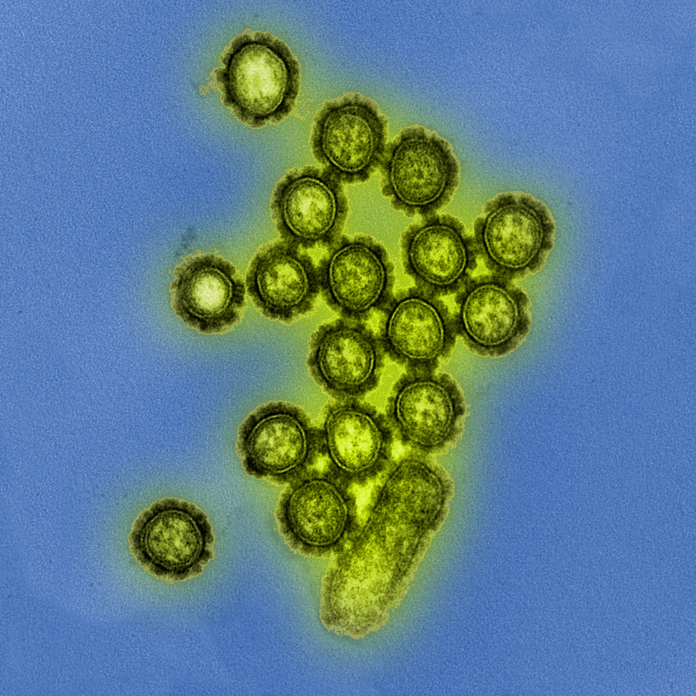 This colorized transmission electron micrograph shows H1N1 influenza virus particles. Surface proteins on the virus particles are shown in black. National Institute of Allergy and Infectious Diseases (NIAID)